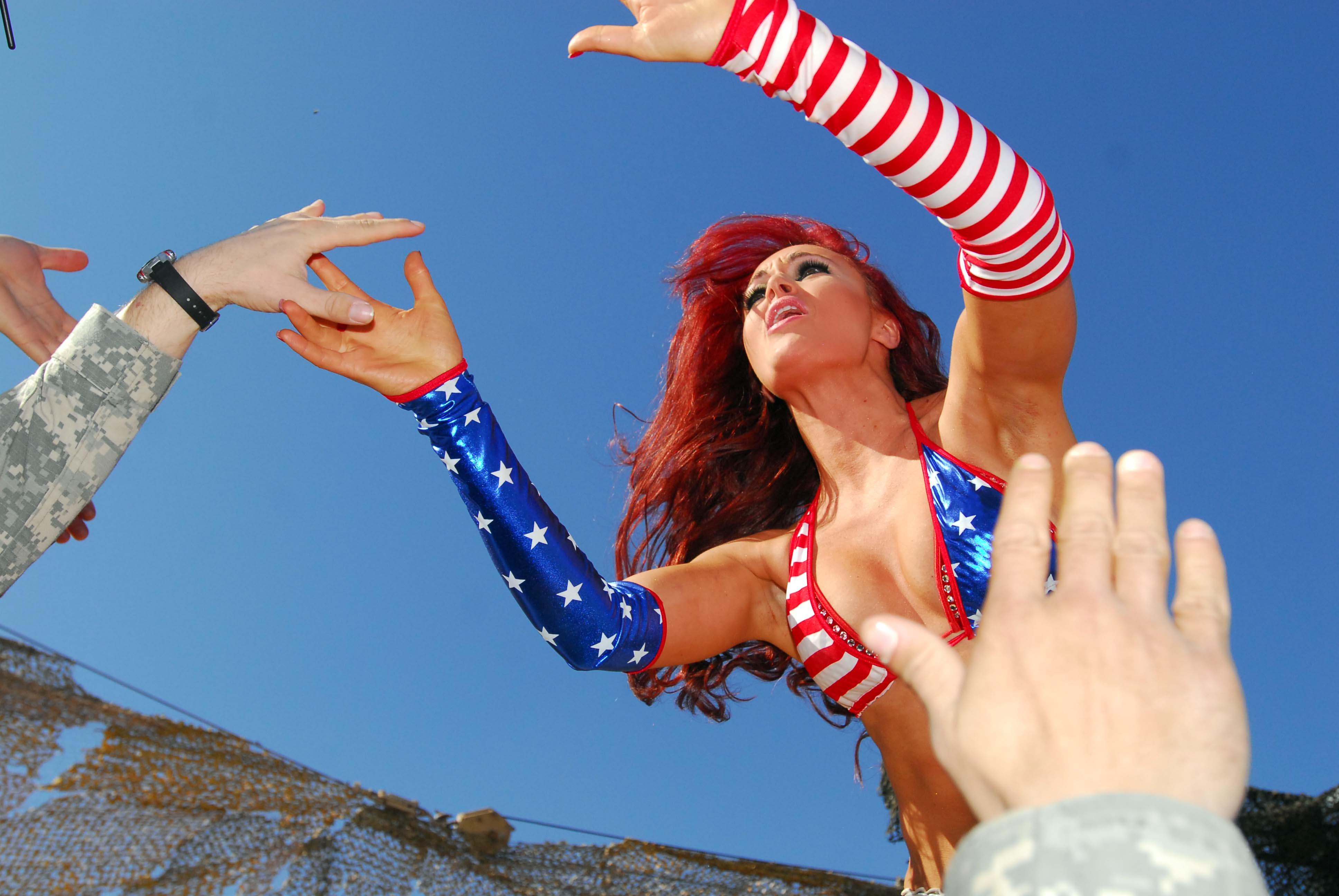 World Wrestling Entertainment diva Maria Kanellis touches the hands of troops attending the WWE's Tribute to the Troops main event on Camp Victory, Dec. 5.